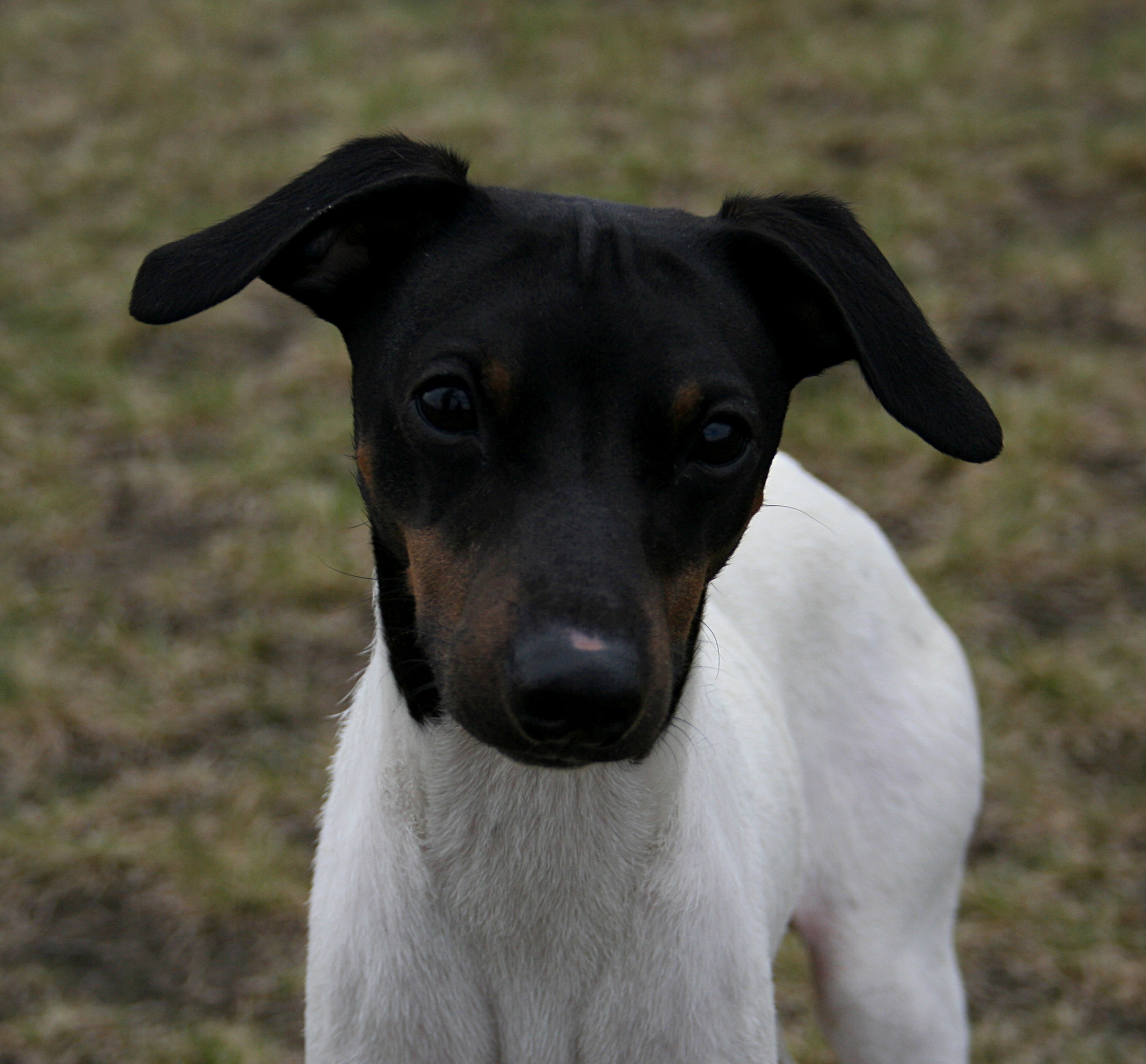 At photo Amakakeru-Meiji White Oleander - Japanese Terrier on dogs show in Konopiska, Poland. The owner is Paweł Gąsiorski.